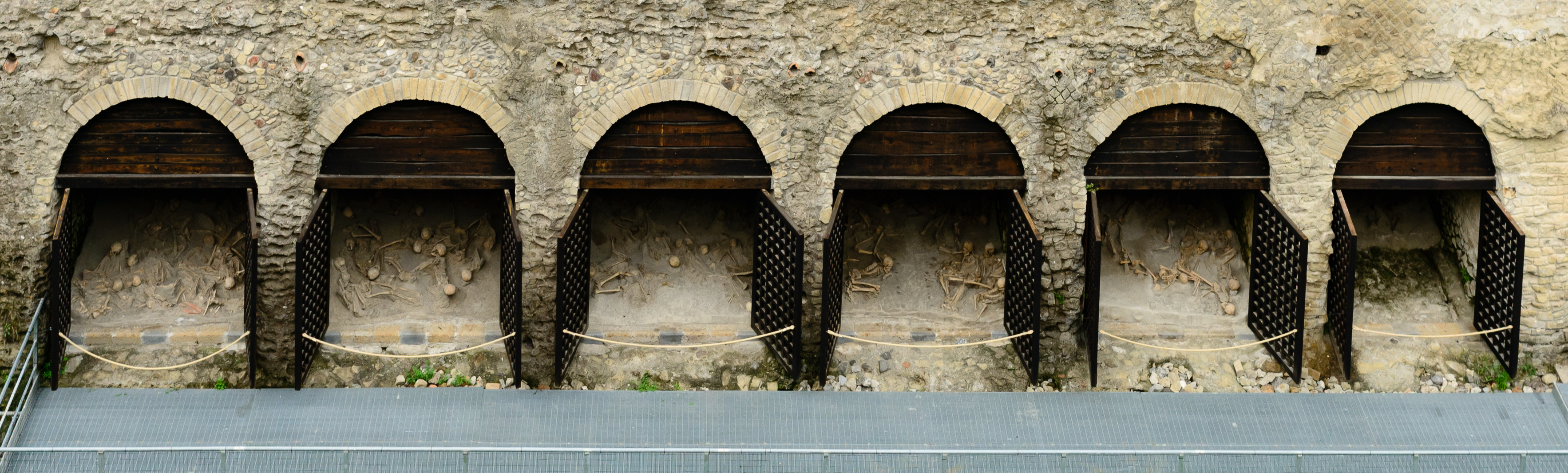 Ancient Roman Herculaneum, Campania, Italy.